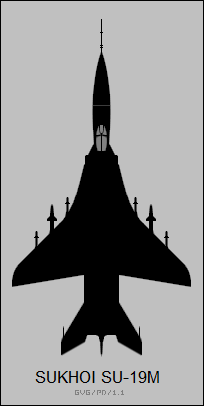 Su-19